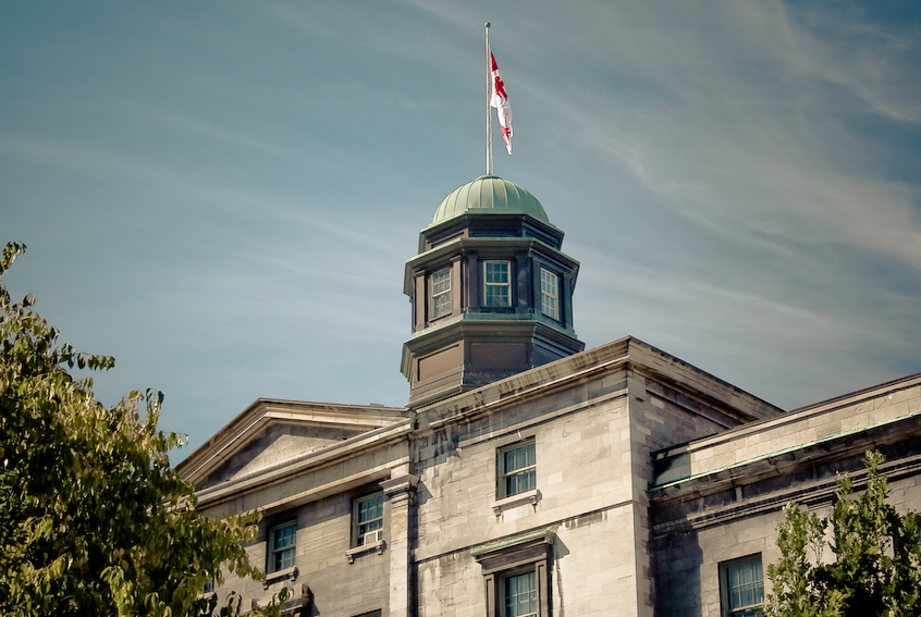 McGill University Arts building.